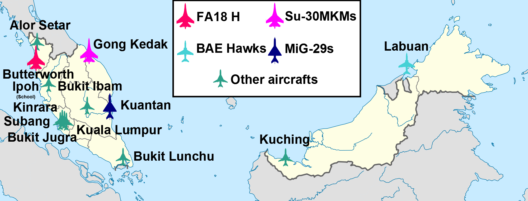 Aircraft bases of the Royal Malaysian Air Force.